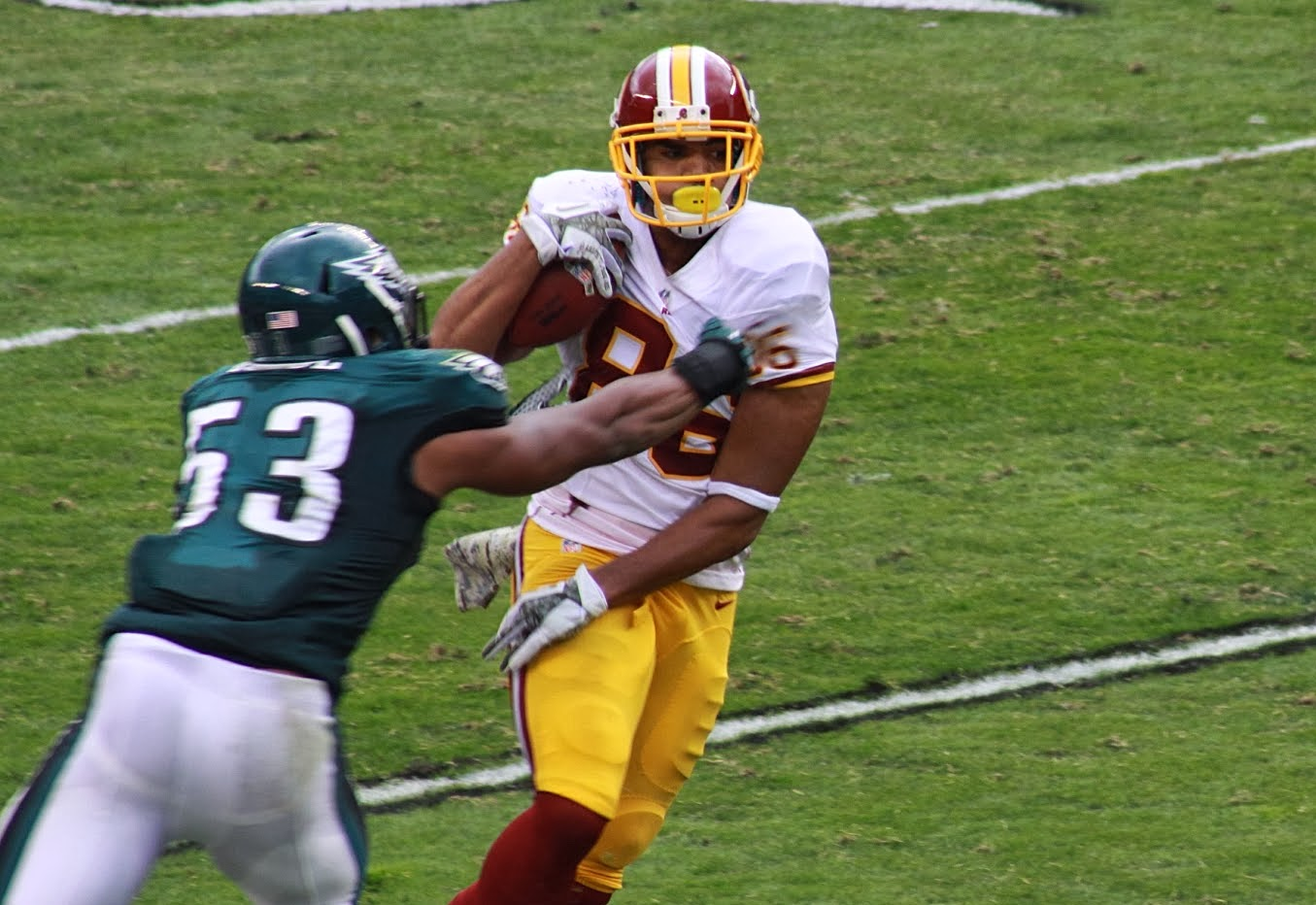 Jordan Reed during a 24-16 loss to the Philadelphia Eagles on November 17, 2013.